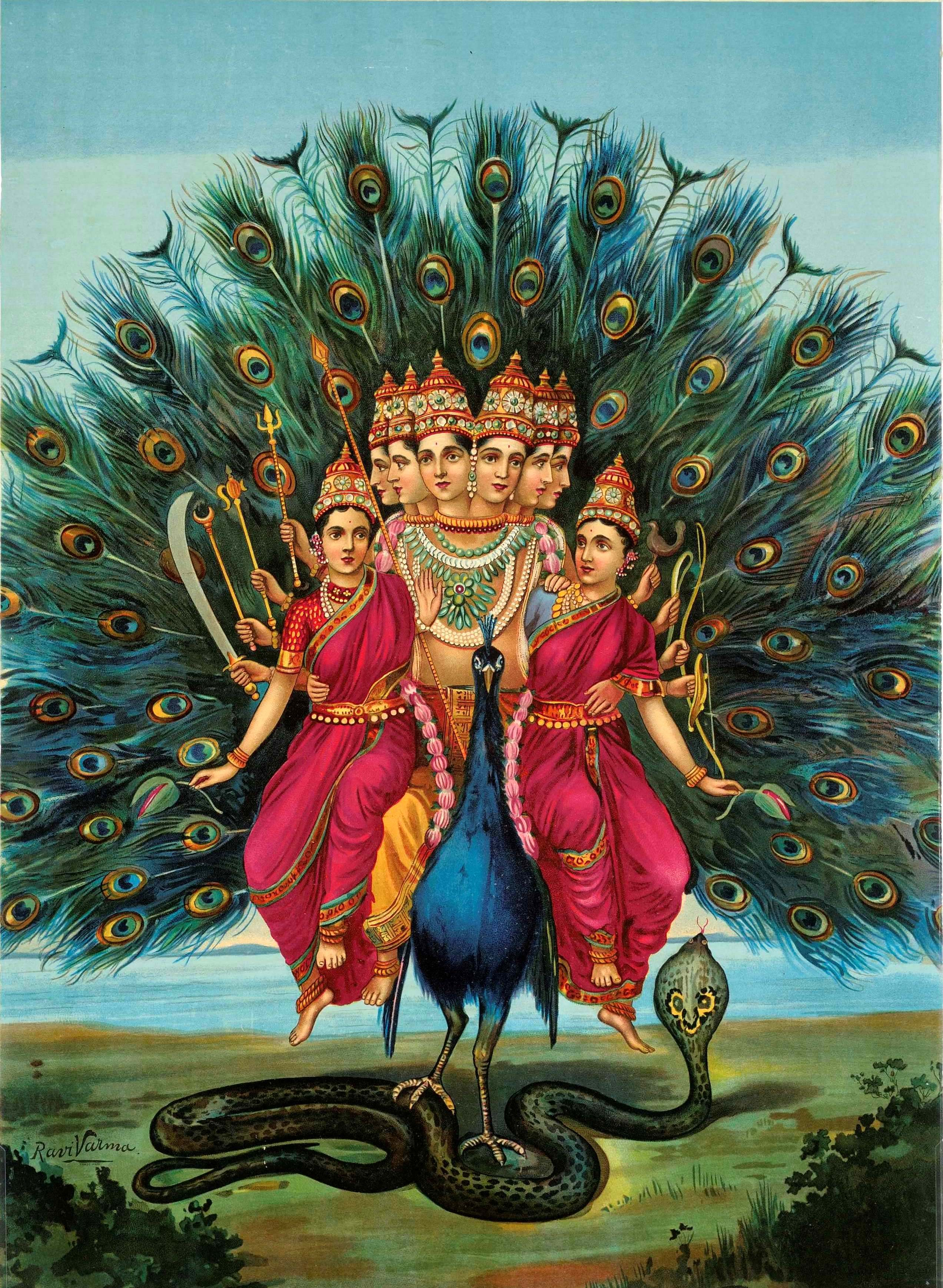 Hindu deity Karktikeya or Murugan with his consorts on his Vahana peacock.